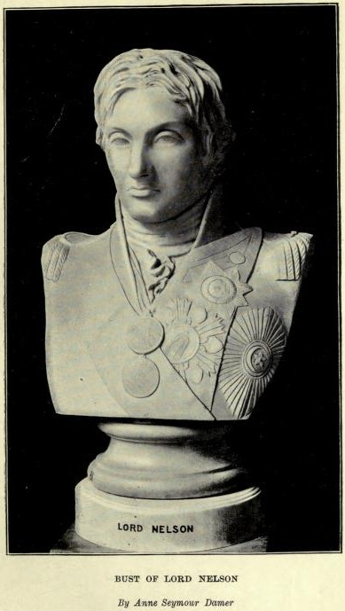 Bust of Lord Nelson by Anne Seymour Damer